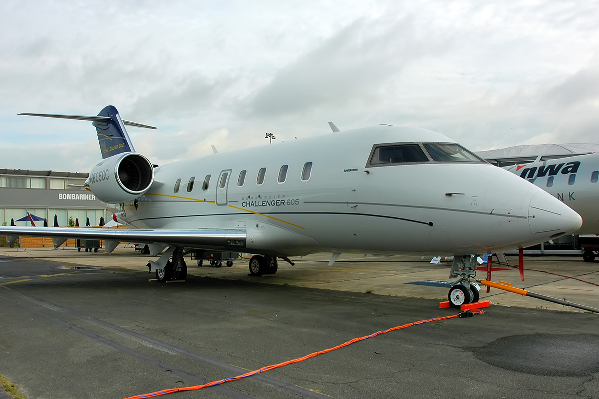 Bombardier Challenger 605 at Paris Air Show 2007